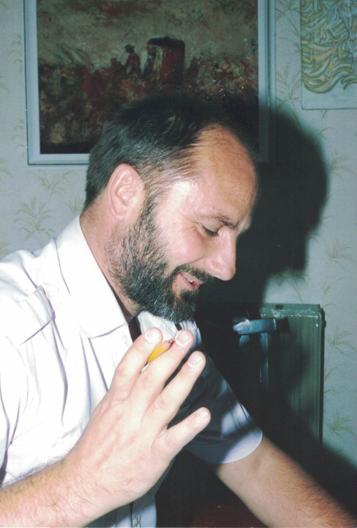 Bulgarian artist and poet, personal archive